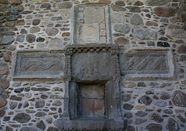 Sacrament House of Kinkell Church, Aberdeenshire, Scotland